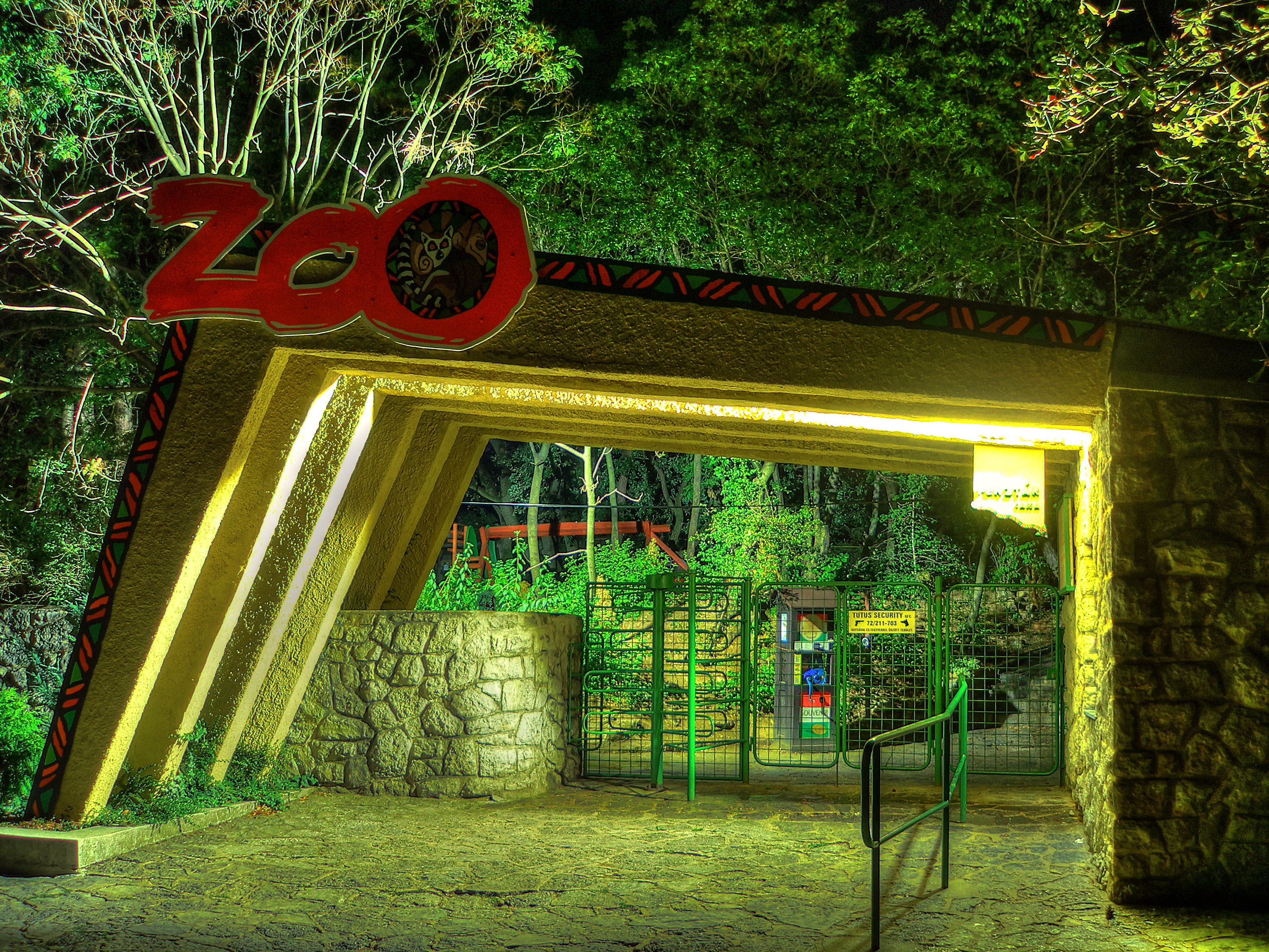 Pécs Zoo entrance at night, 2007